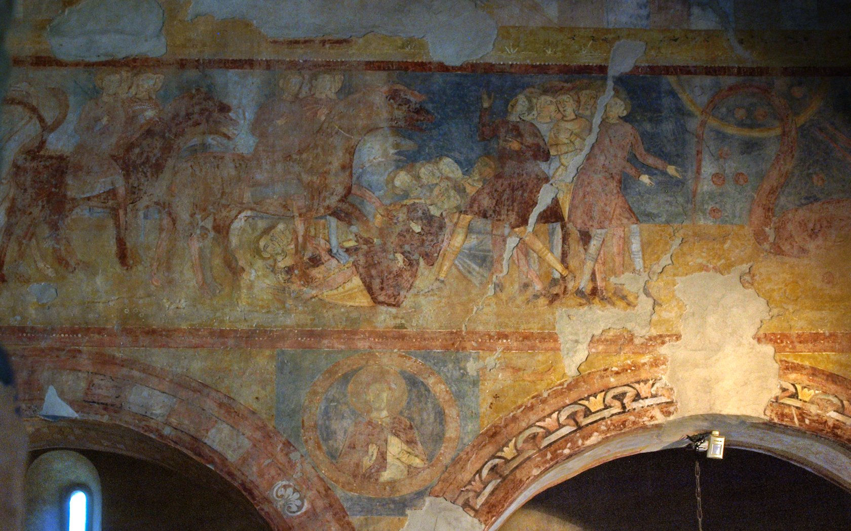 Church of San Severo in Bardolino (Italy), photo 2011